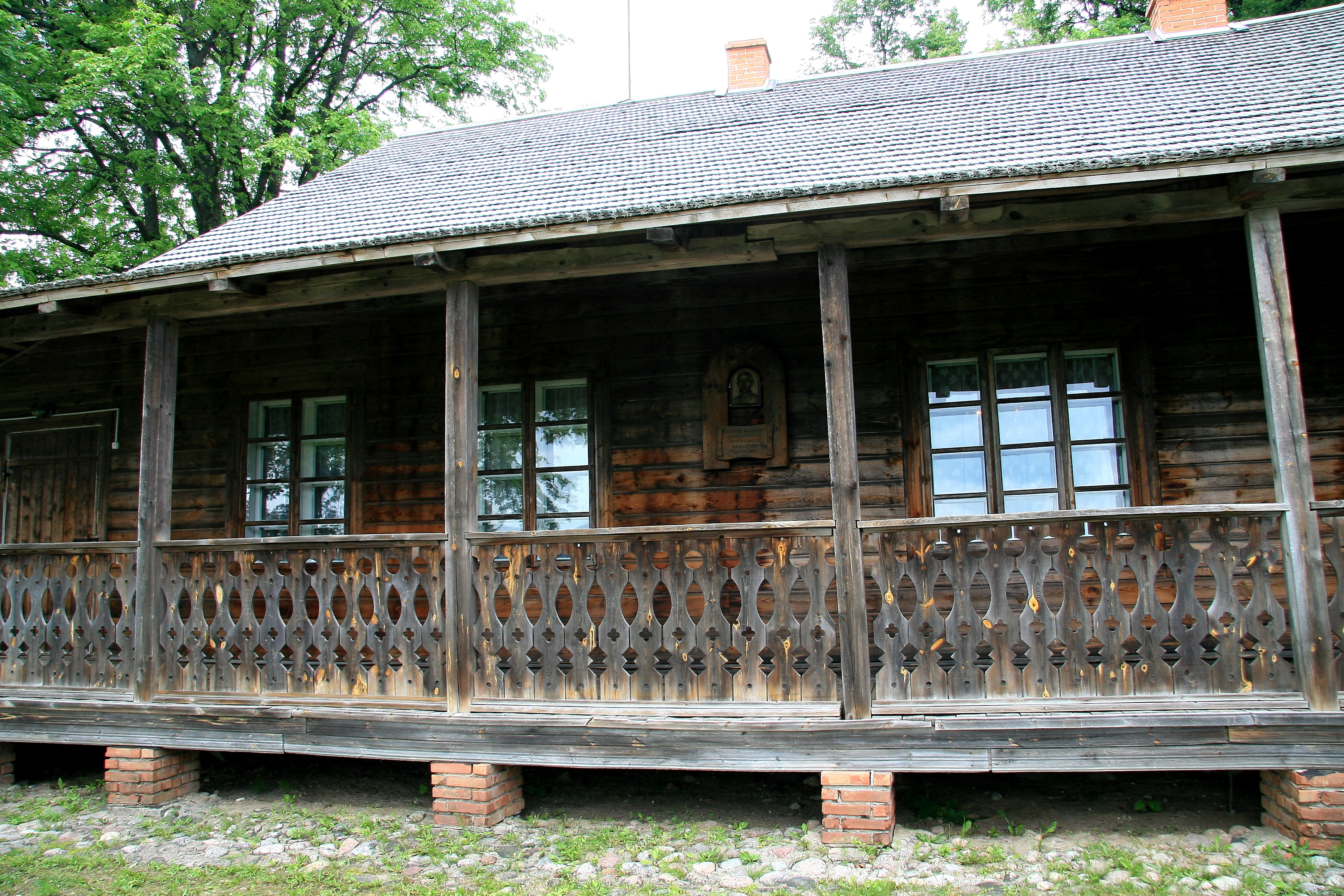 House of Francišak Bahuševič in Kušliany, Belarus